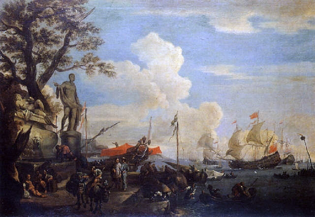 Mediterraneon port with Turkish merchants